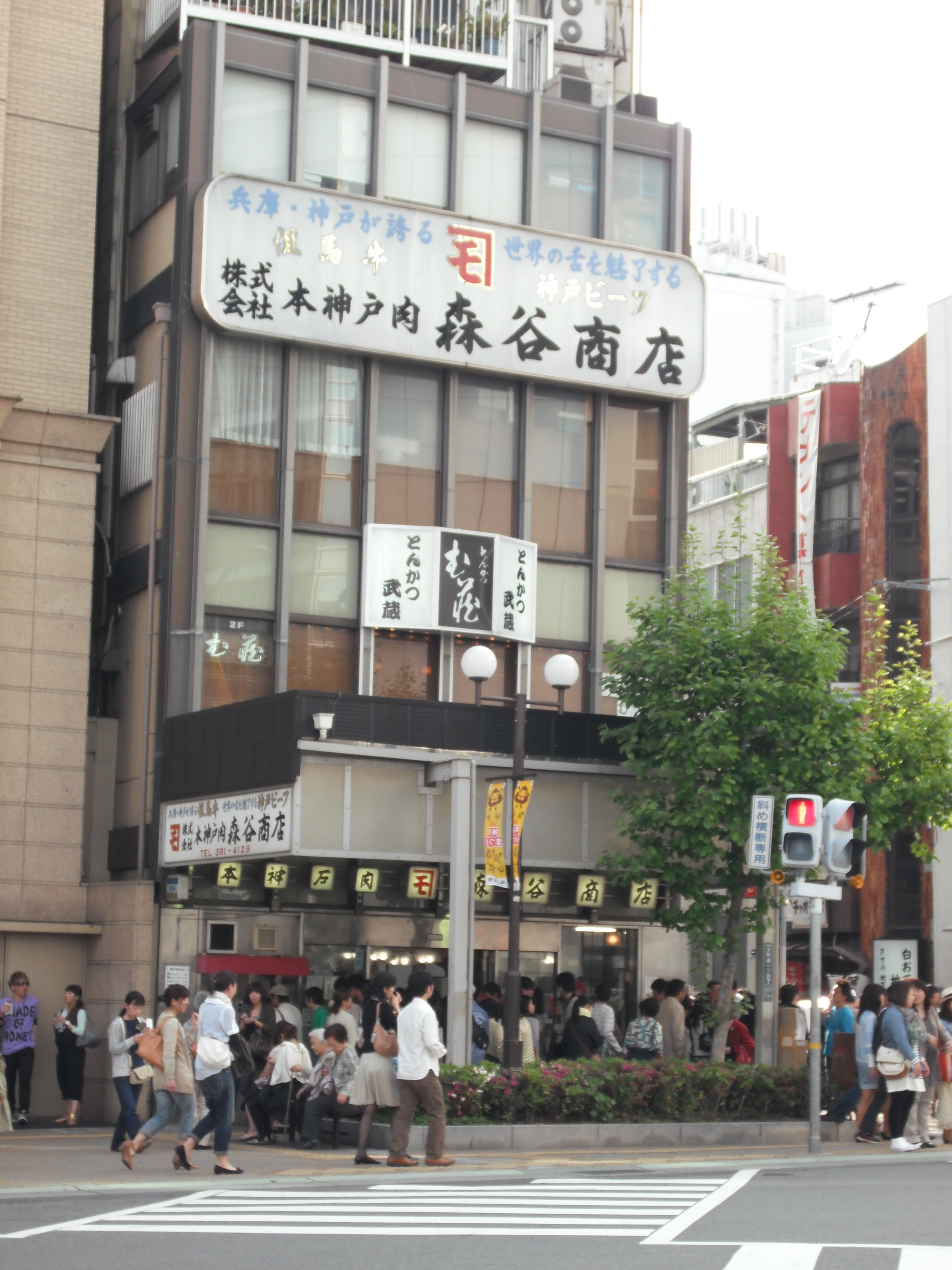 Moriya-shouten,Kobe, Hyogo prefecture, Japan